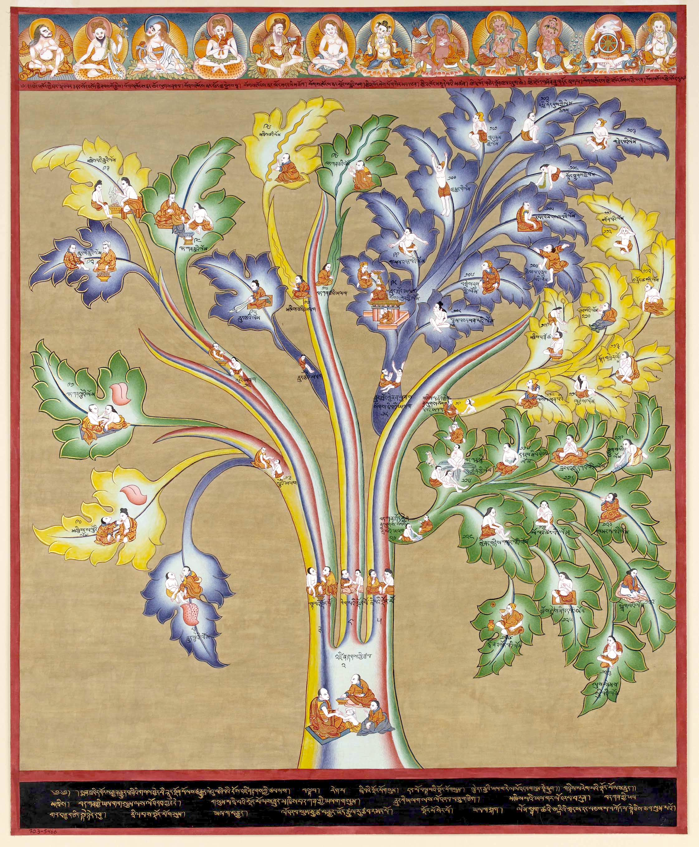 The Blue Beryl - tree of diagnosis plate